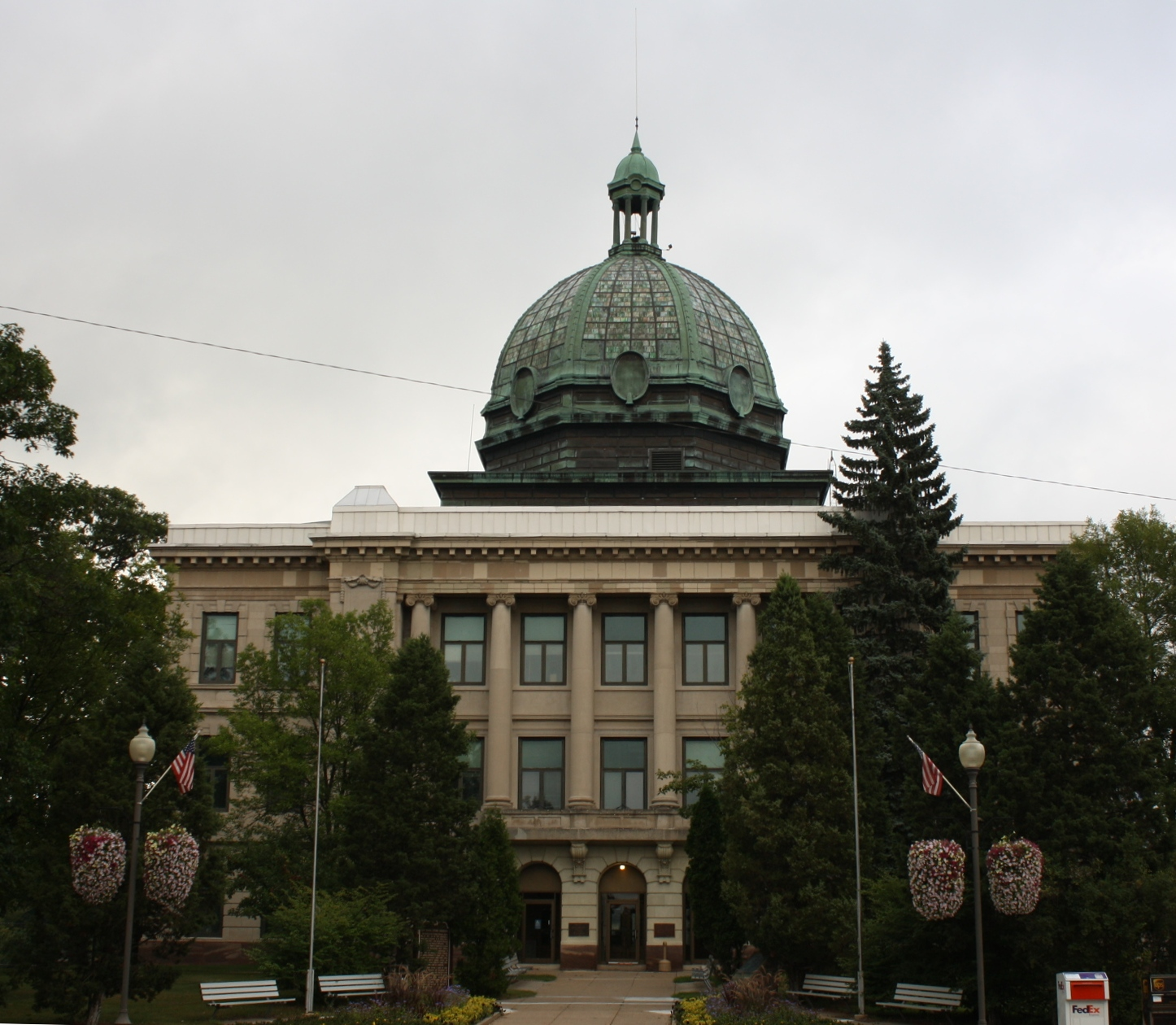 The Oneida County Courthouse in Rhinelander, Wisconsin. It is listed on the National Register of Historic Places.